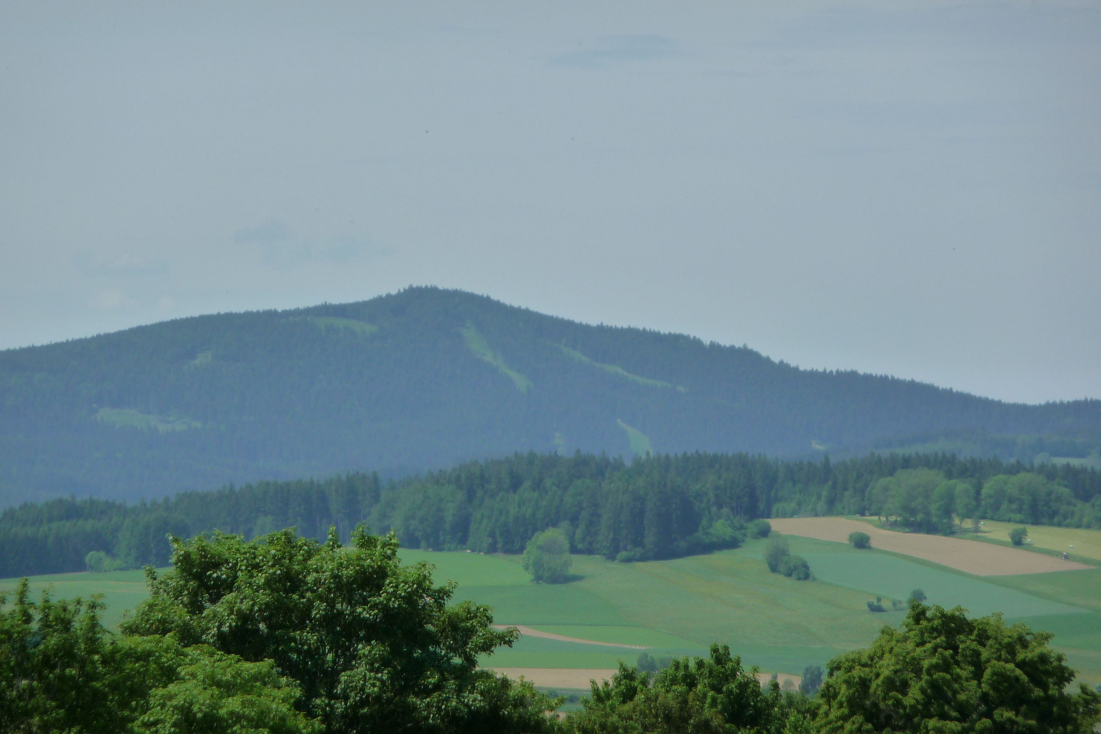 Sternstein (1122m high) seen from Schenkenfelden